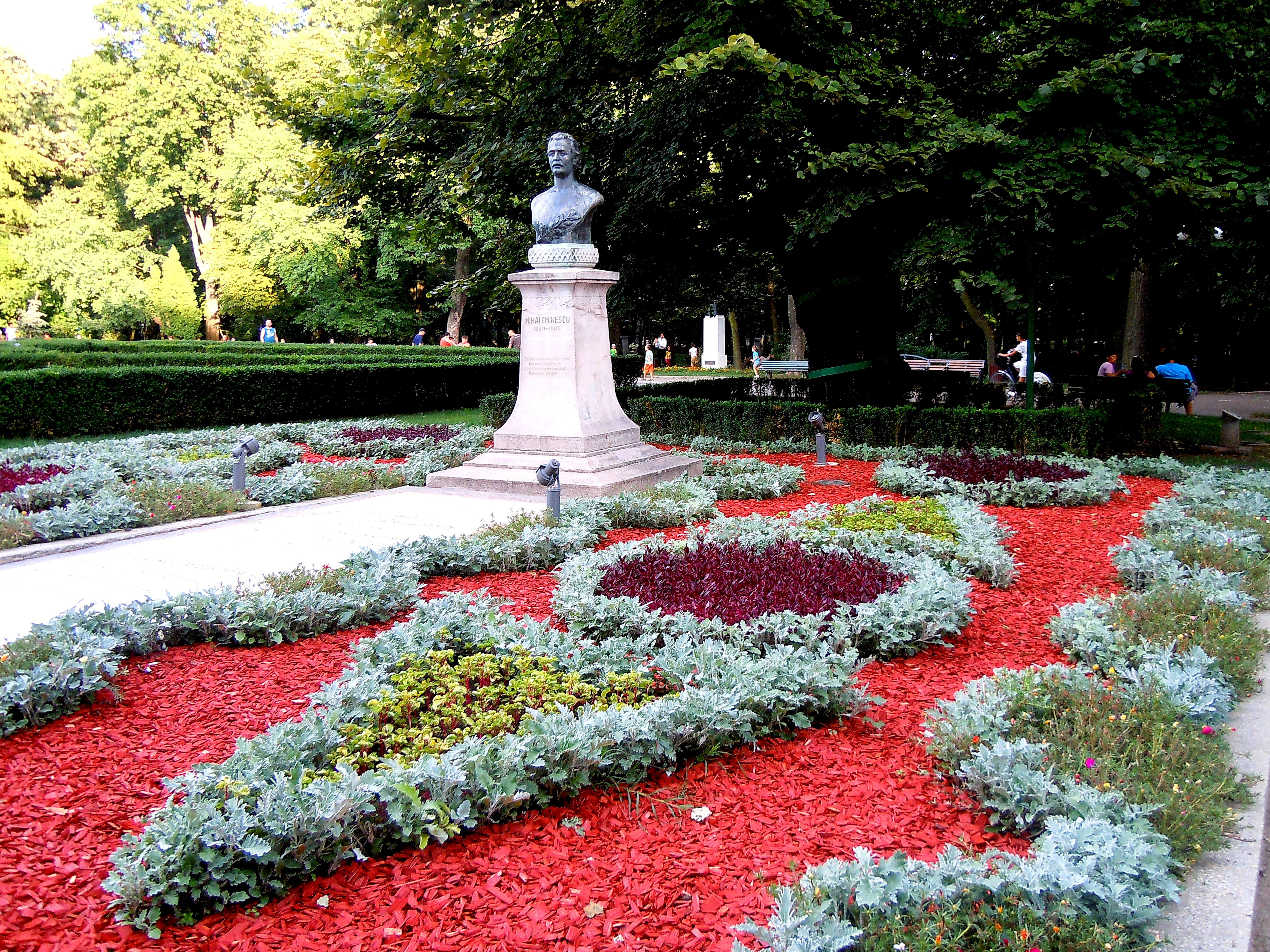 Iaşi , RomaniaRomână: Bustul lui Mihai Eminescu în Grădina Copou , Iaşi , România